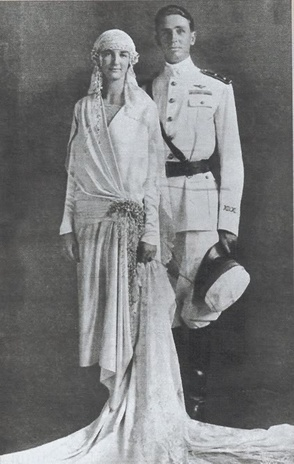 Photo of the Duke ond Duchess of Aosta (1906-1986)